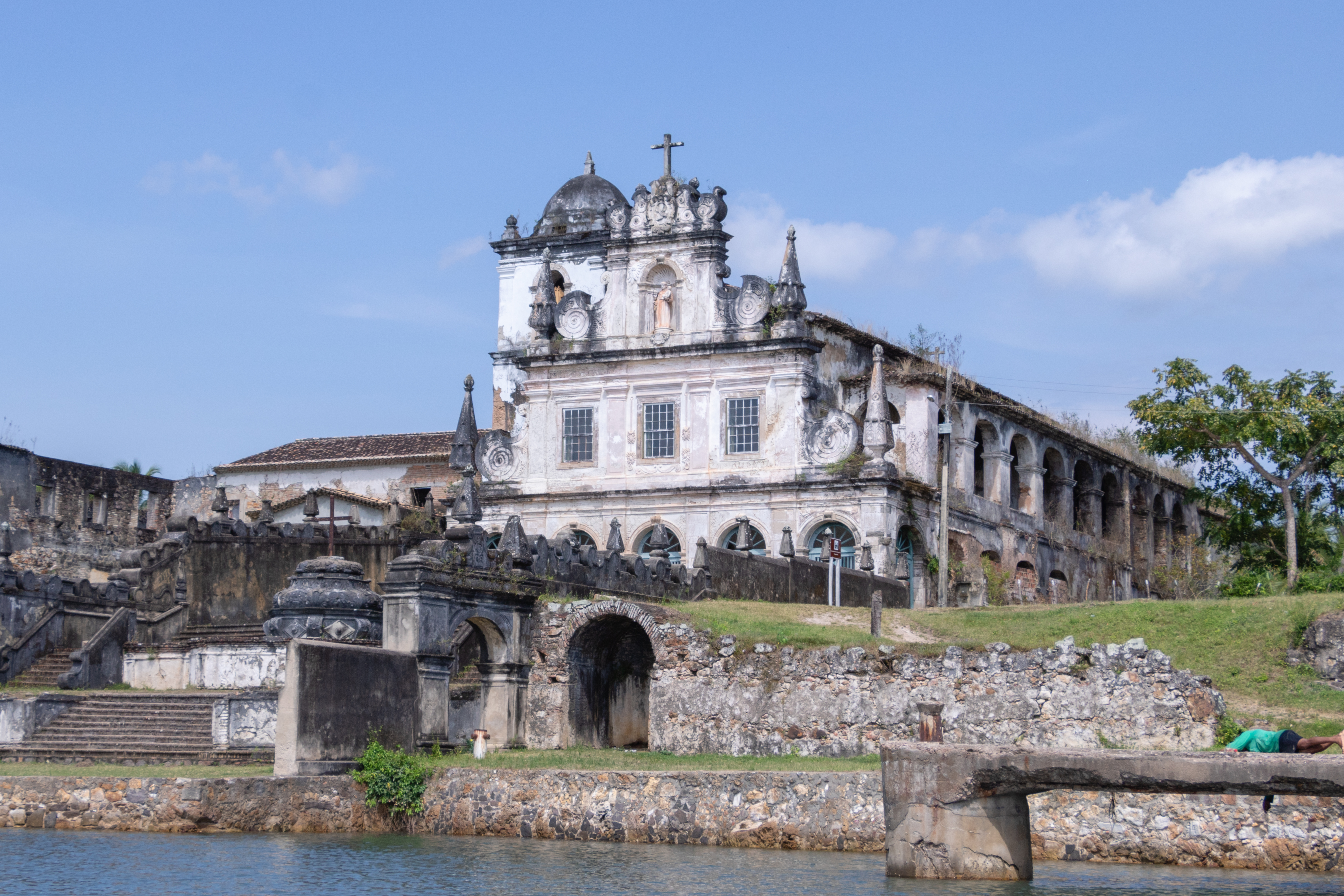 Convento de Santo Antônio do Paraguaçu (Convent and Church of Saint Antony), Cachoeira, Bahia, Brazil.